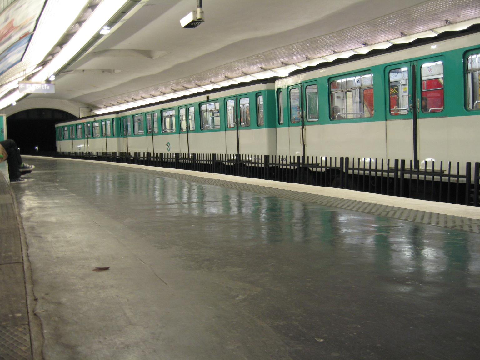 An MP 59 rubber tyred rolling stock at the Line 4 Vavin station.